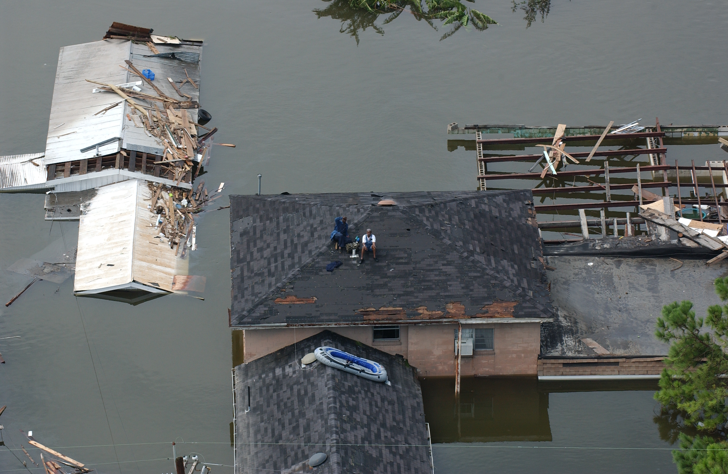 New Orleans, LA, August 30, 2005 -- People sit on a roof waiting to be rescued after Hurricane Katrina. New Orleans is being evacuated as a result of flooding caused by hurricane Katrina. Jocelyn Augustino/FEMA